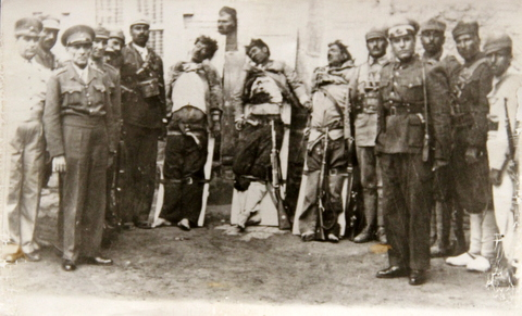 Execution of Gol Mohammad and his followers in 1325 SH (1946 or 1947 AD).